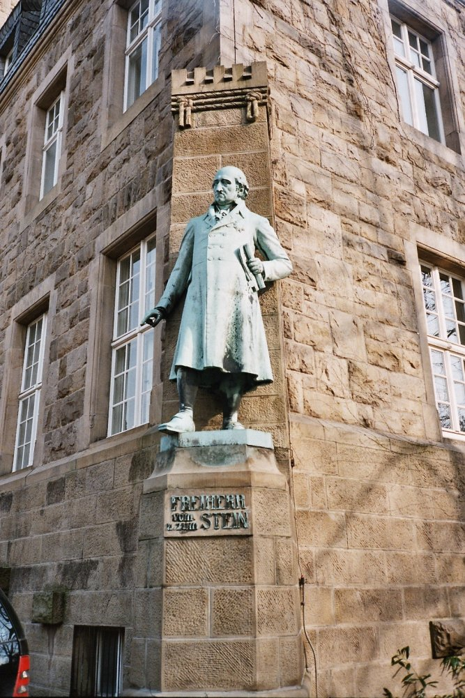 Fixed image of Heinrich Friedrich Karl Freiherr vom Stein at city hall of Wetter, Germany, sculpted by Richard Grüttner, 1909